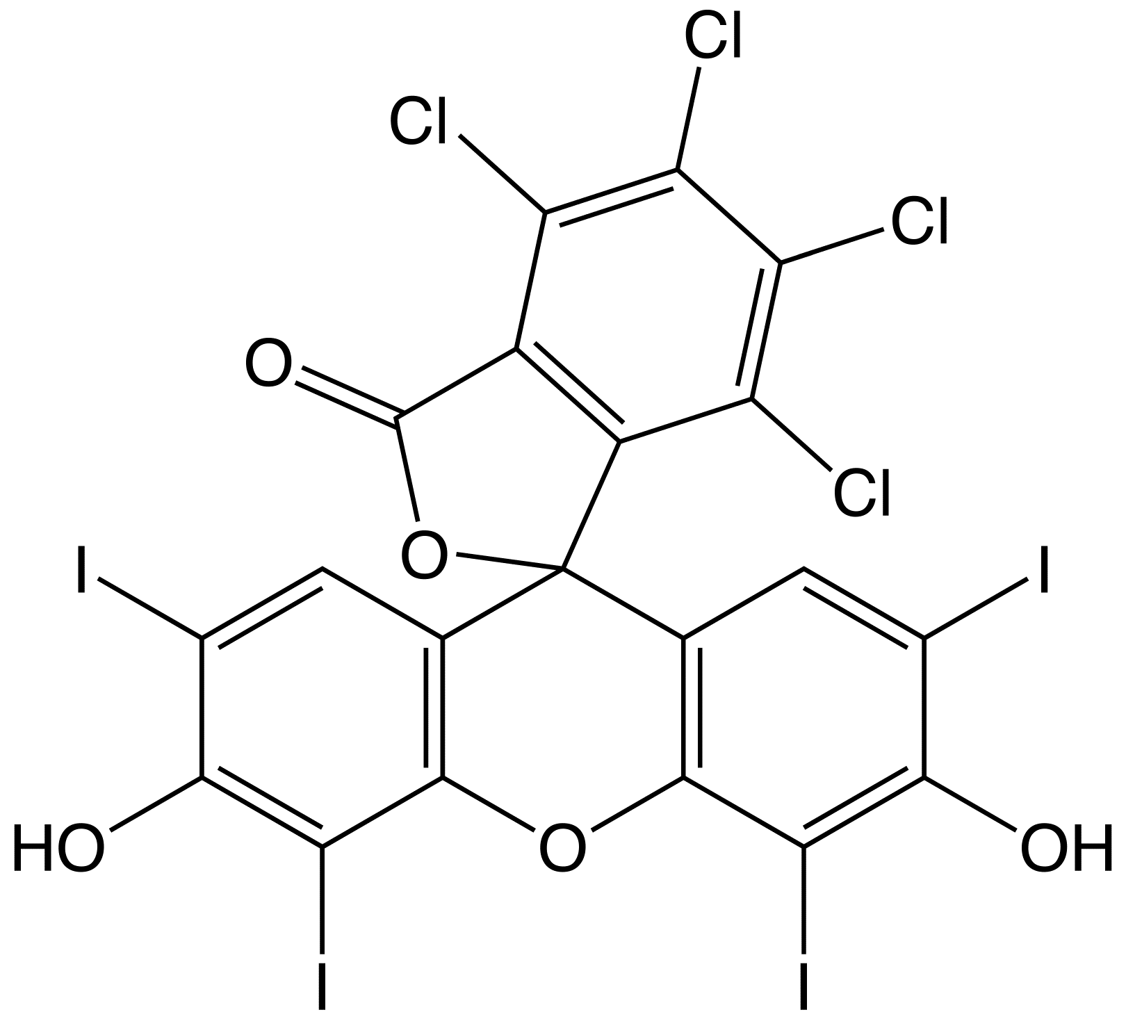 2D skeletal drawing of rose bengal. High resolution PNG.